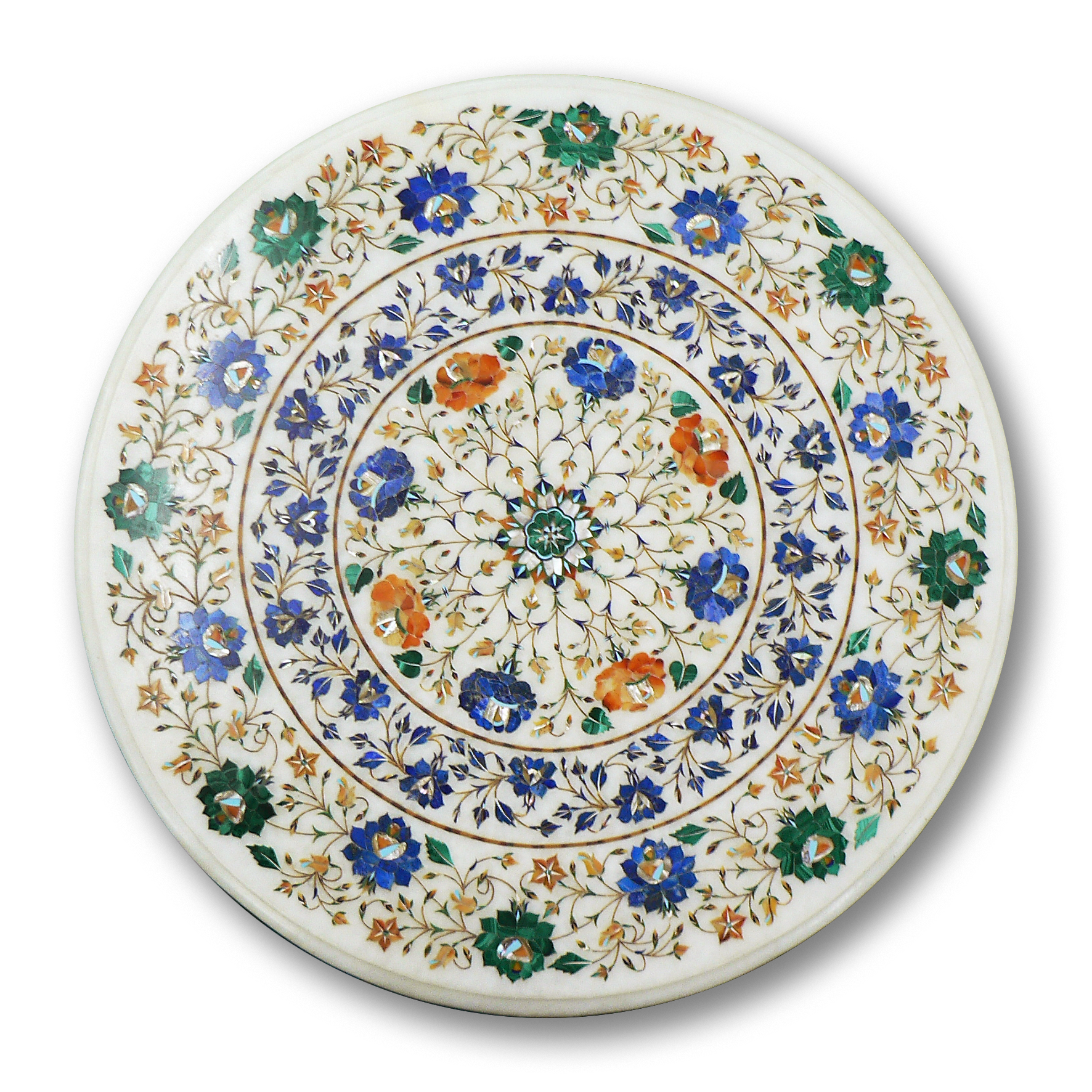 Table top of marble created with the technique of PIETRA DURA. The flower pattern is a copy from the Taj Mahal, Agra, India.